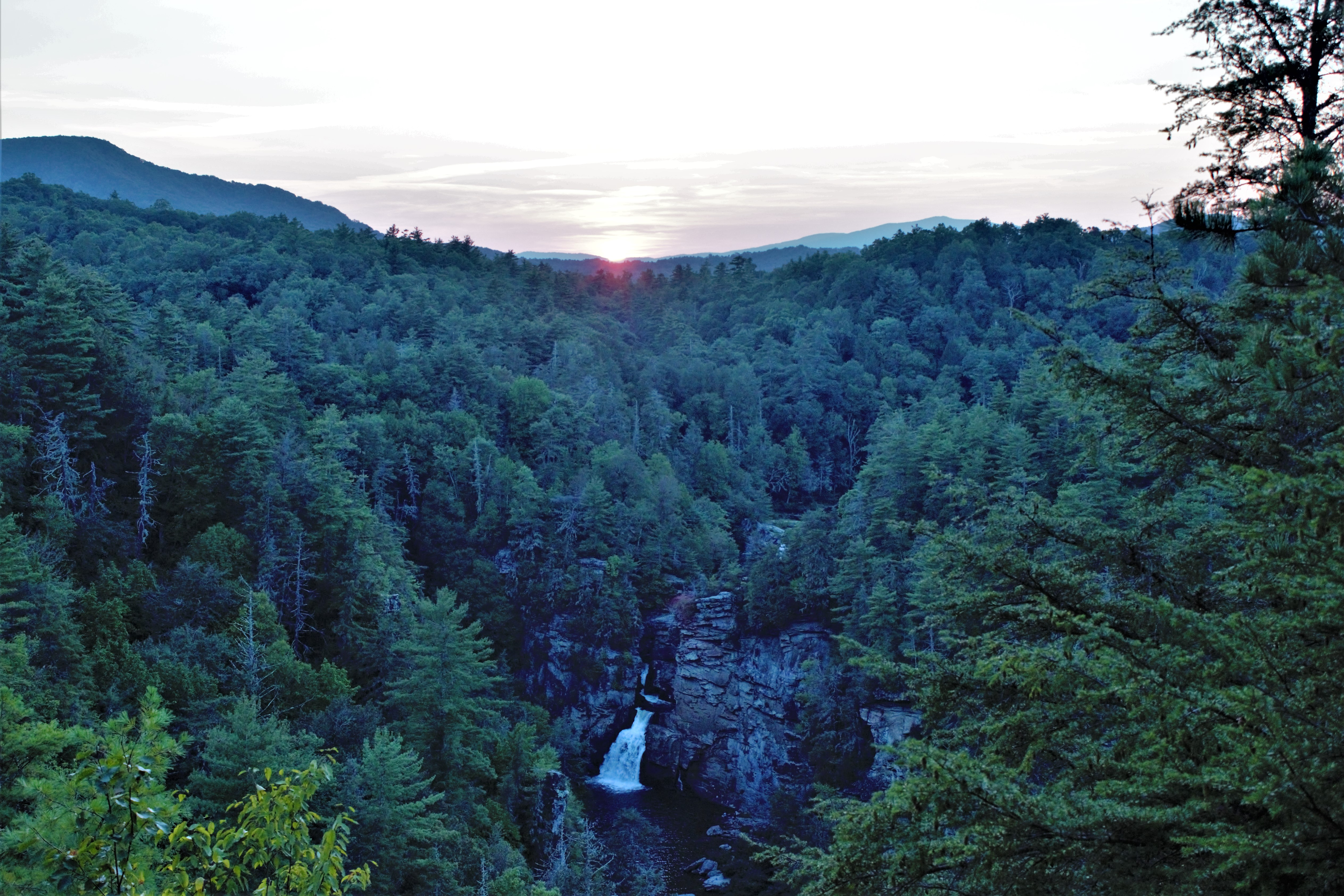 Linville Falls is a waterfall 39; water located in the Blue Ridge Mountains, North Carolina United States. Linville Falls marks the beginning of the Linville Gorge, which is formed by the Linville River, which continues on after the fall before finally ending near Lake James. According to staff at Linville Falls, the falls were used by local Indians for 39; execute prisoners. No person 39; is known to have survived a fall on the final jump. Fallswere donated to the National Park Service in 1952 by John D. Rockefeller, Jr. He has contributed about $ 100,000 for 39, purchase of land, including 1,100 acres surrounding the falls 4.5 km2 and a part of Linville Gorge, Giulia Luginbuhl Des Moines, IA, whose father, FW Hossfeld of Morganton, North Carolina, had purchased the property about 1900.